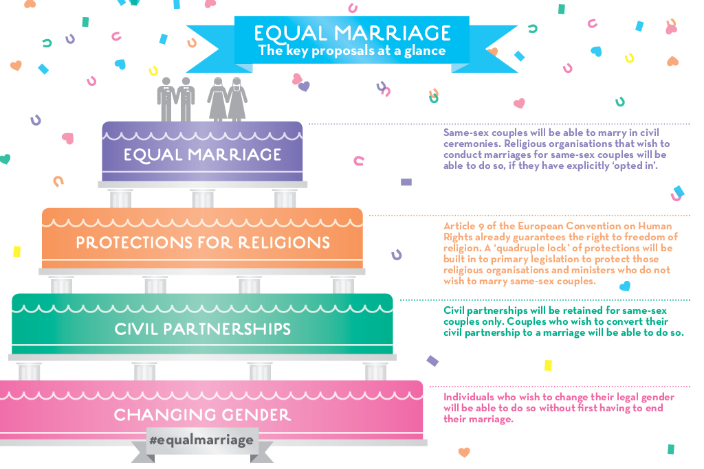 Infographic and campaign graphics for the launch of equal marriage in England and Wales.